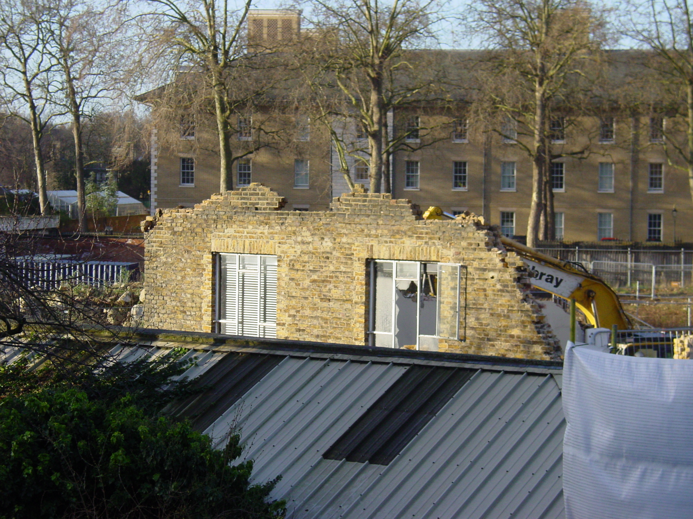 (Creation date is approximate)